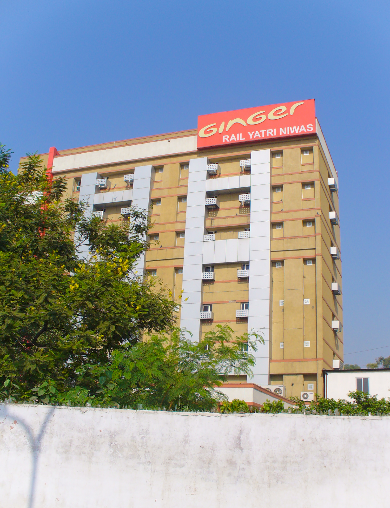 The view from the elevator to the metro station. That's how close it is!